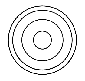 line art example of concentric.